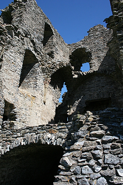 Auchindoun Castle Keep The remains of the keep is a bewildering array of arches and vaults, many with their central parts missing.